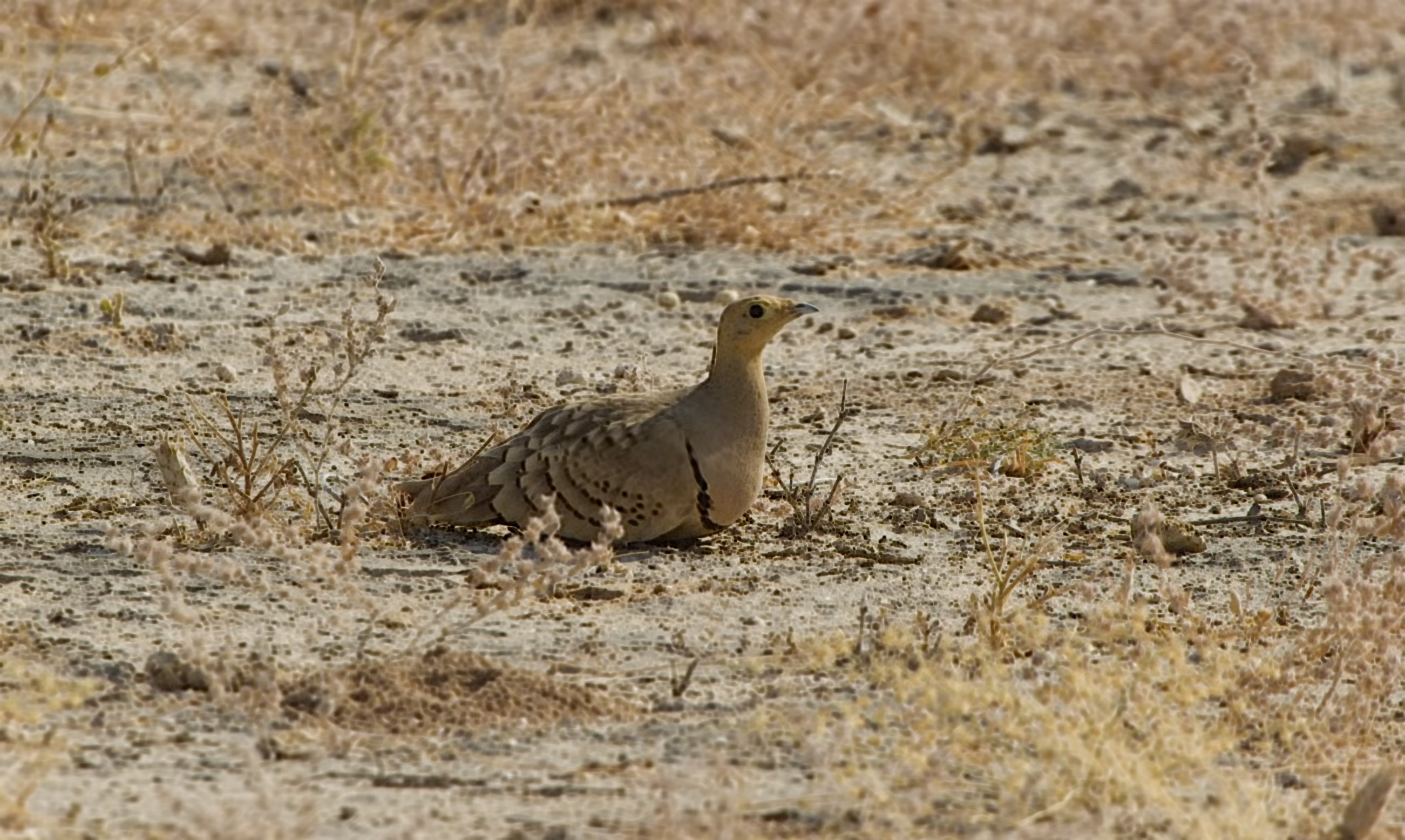 Shot at Desert National Park , Jaisalmer